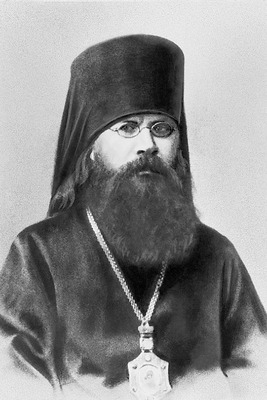 Orthodox bishop of St. Petersburg and Gdow, Veniamin